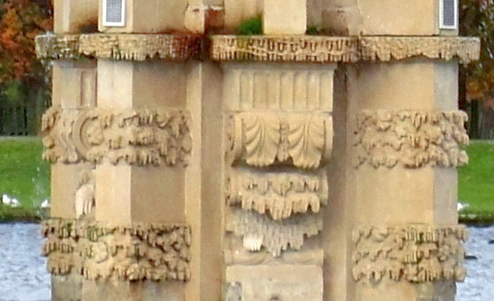 Diana Fountain in Bushy Park, London